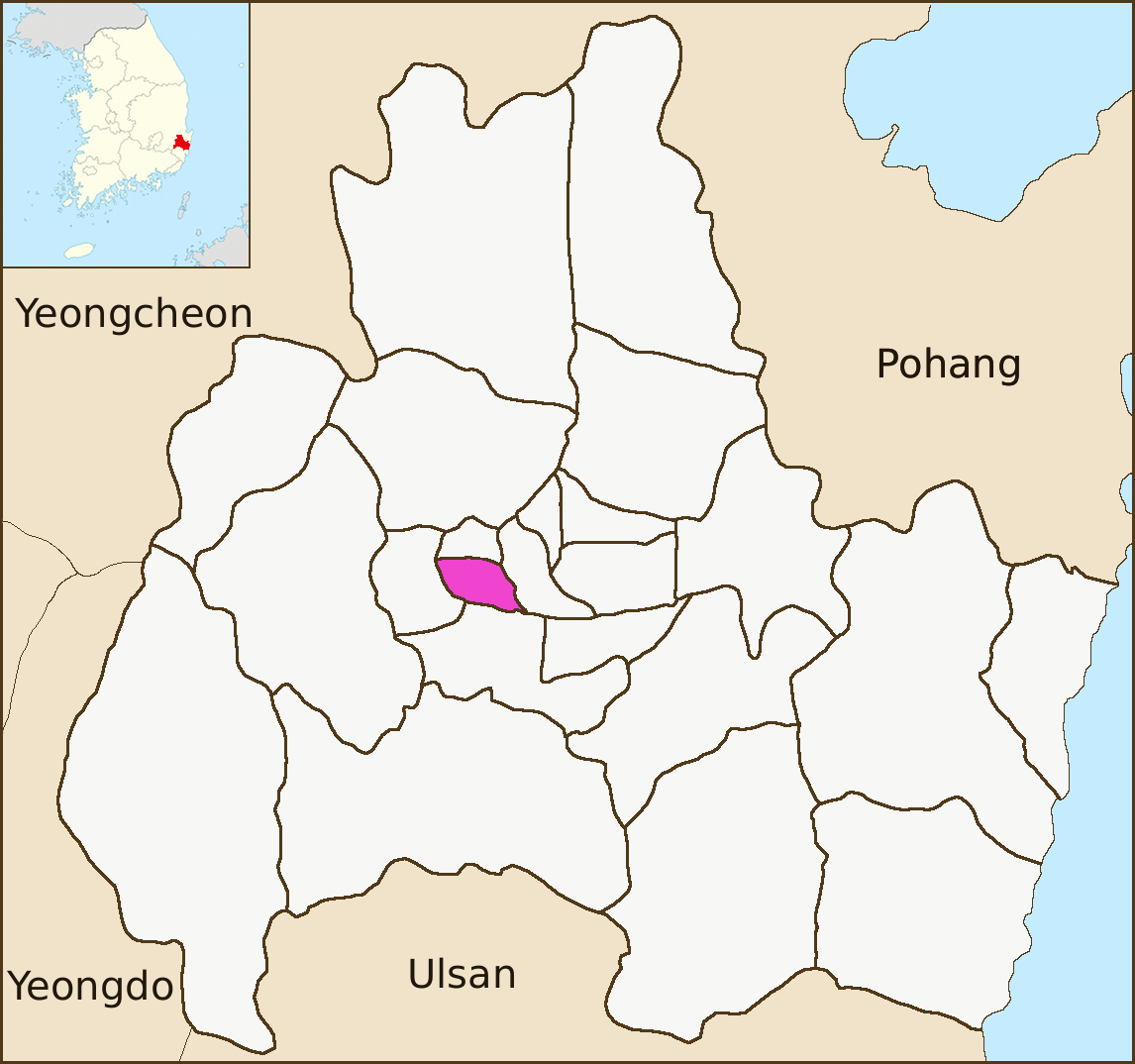 Map of Jungbu-dong, an administrative division of Gyeongju, South Korea. Created by User:Visviva, redrawn by Kokiri